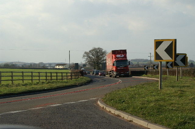 A39 To Cannington.